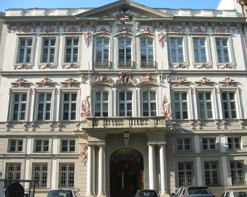 Palais Neuhaus-Preysing in Munich